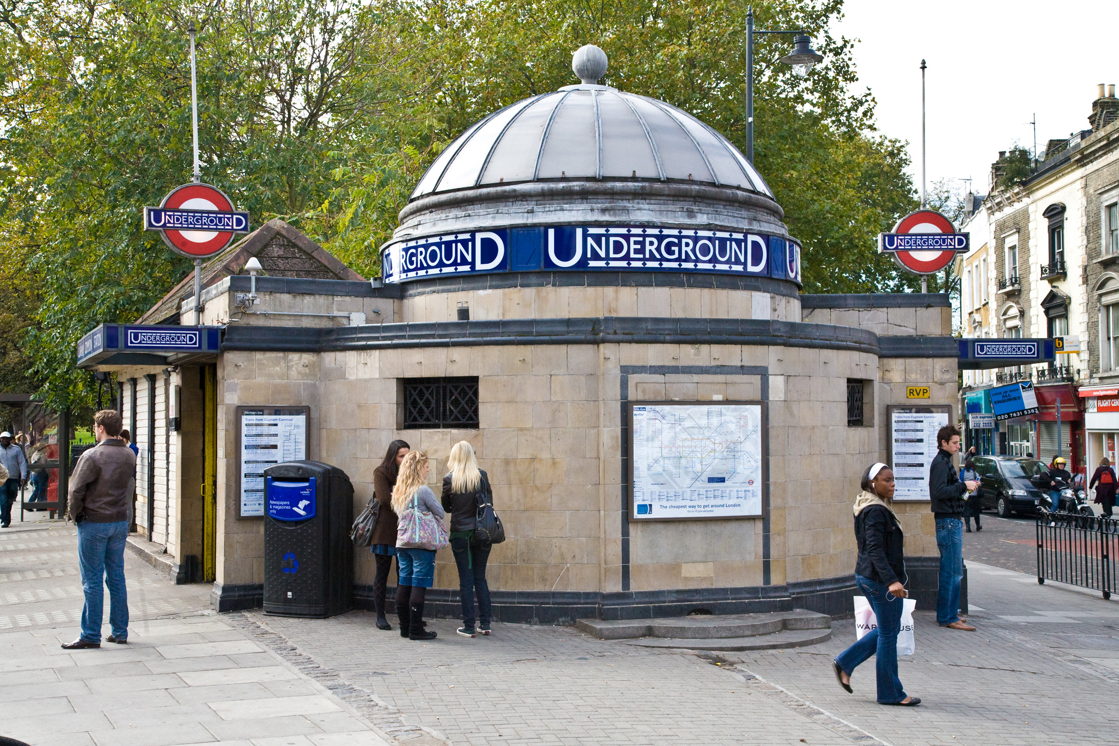 Clapham Common Tube Station Exterior in London, England.